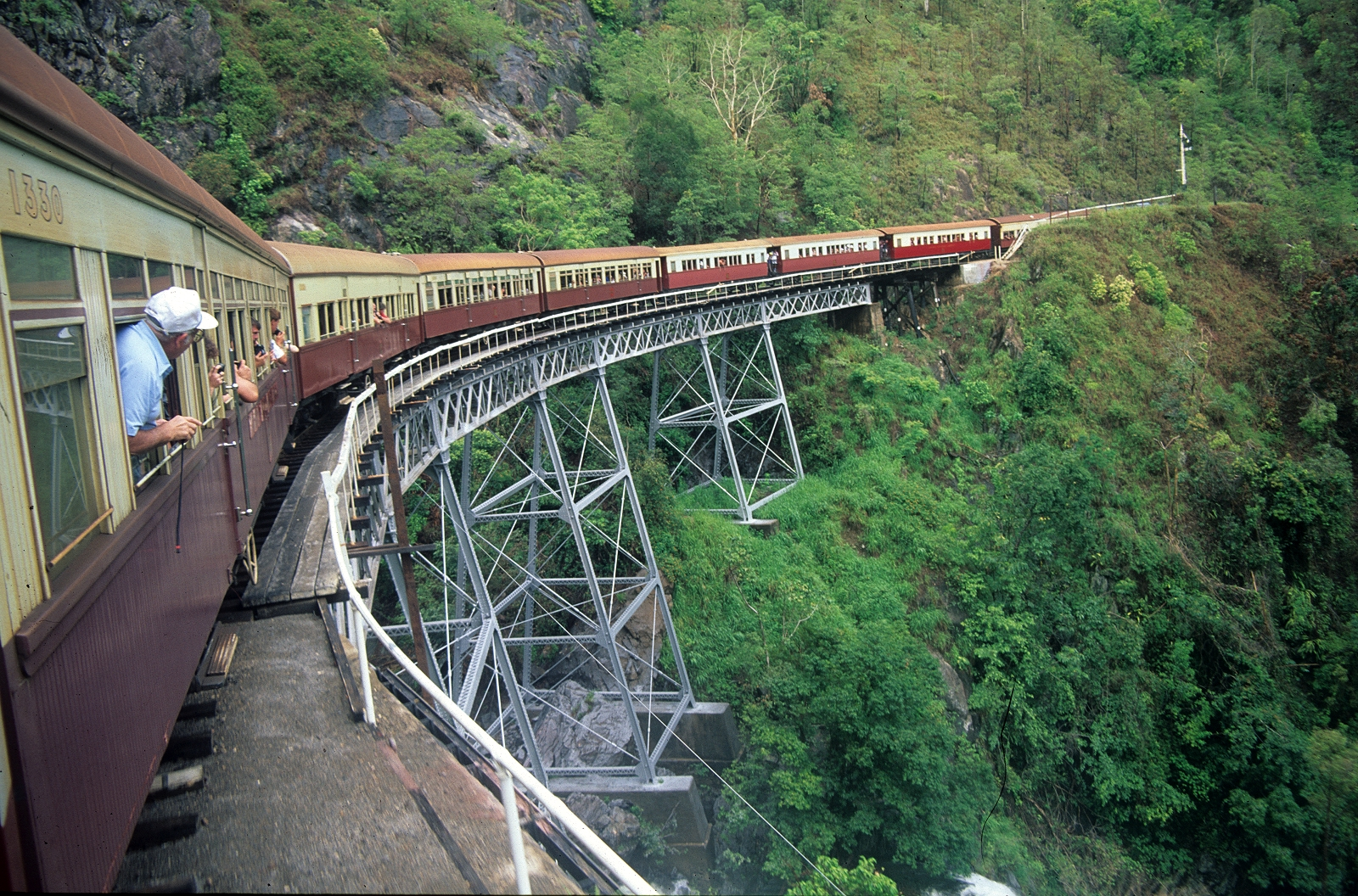 Kuranda Railway